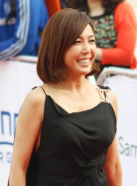 Jeon Soo-Kyung on the red carpet of The Musical Awards, 3 June 2013